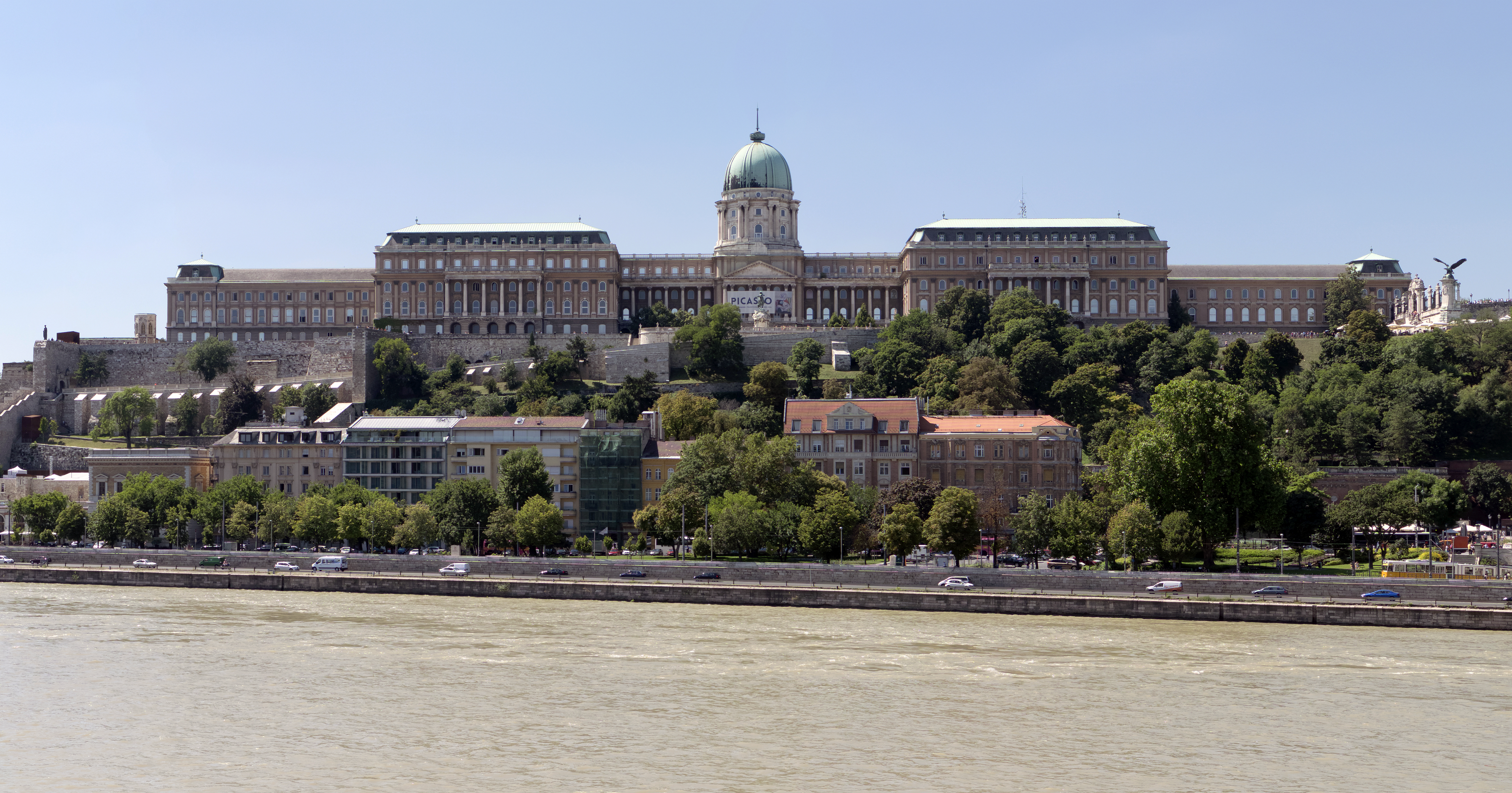 Buda Castle as seen from the opposite side of the Danube river, Budapest, Hungary.